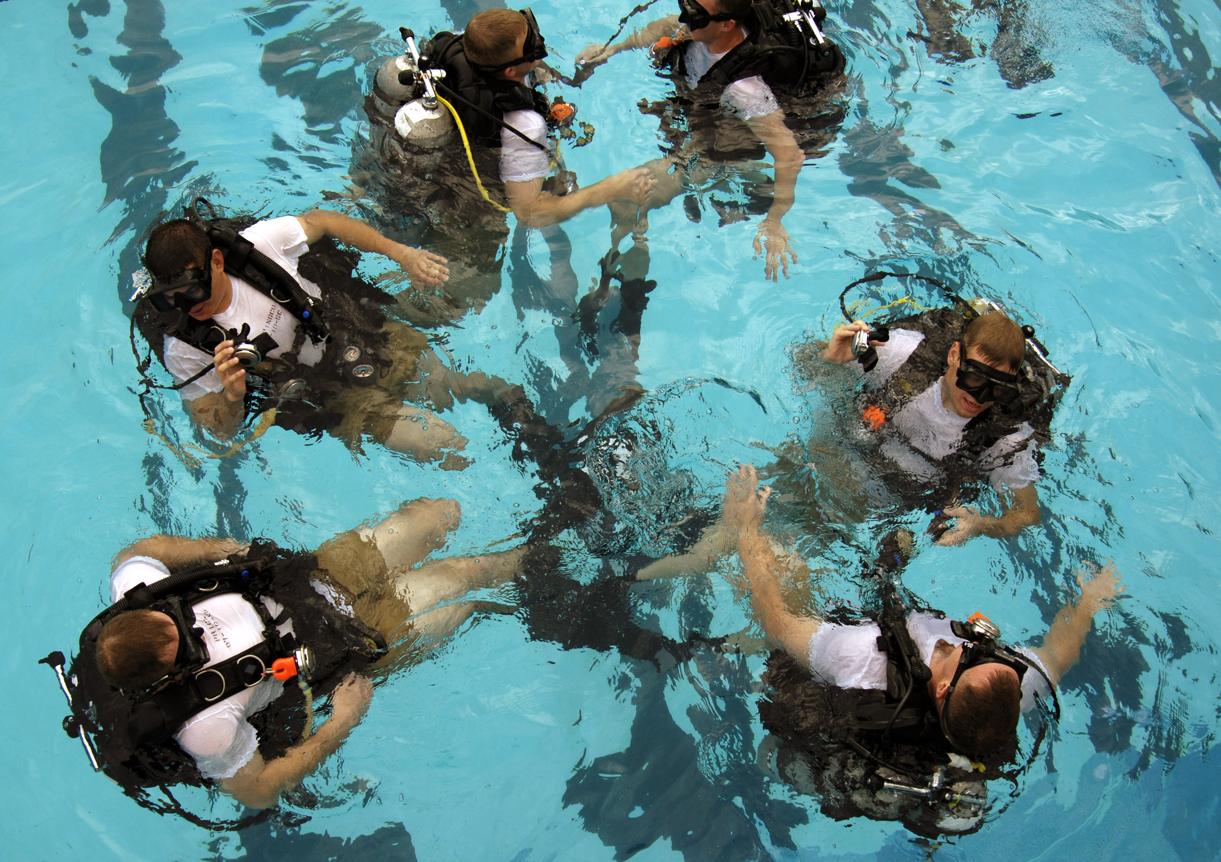 Panama City, Fla. (Dec. 6, 2006) - Six students at the Naval Diving and Salvage Training Center here surface after participating in a training exercise in the center's 12-foot pool. Personnel at the training center offer several underwater diving courses to all branches of the military. U.S. Coast Guard photo by Petty Officer 1st Class NyxoLyno Cangemi (RELEASED)